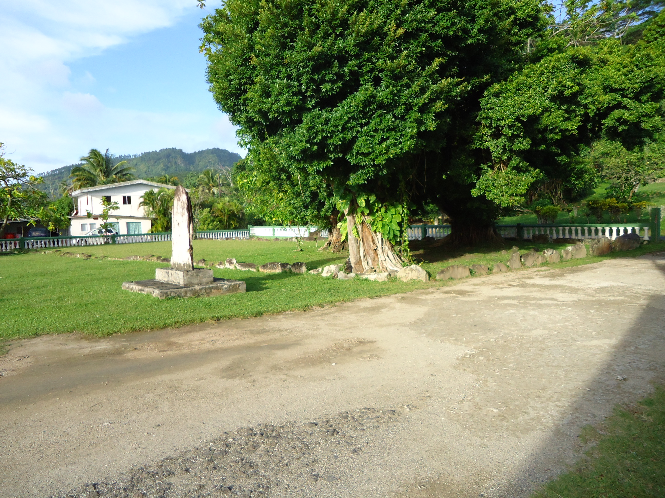 Marae Tainu’u, Tevaitoa, Ra’iātea.